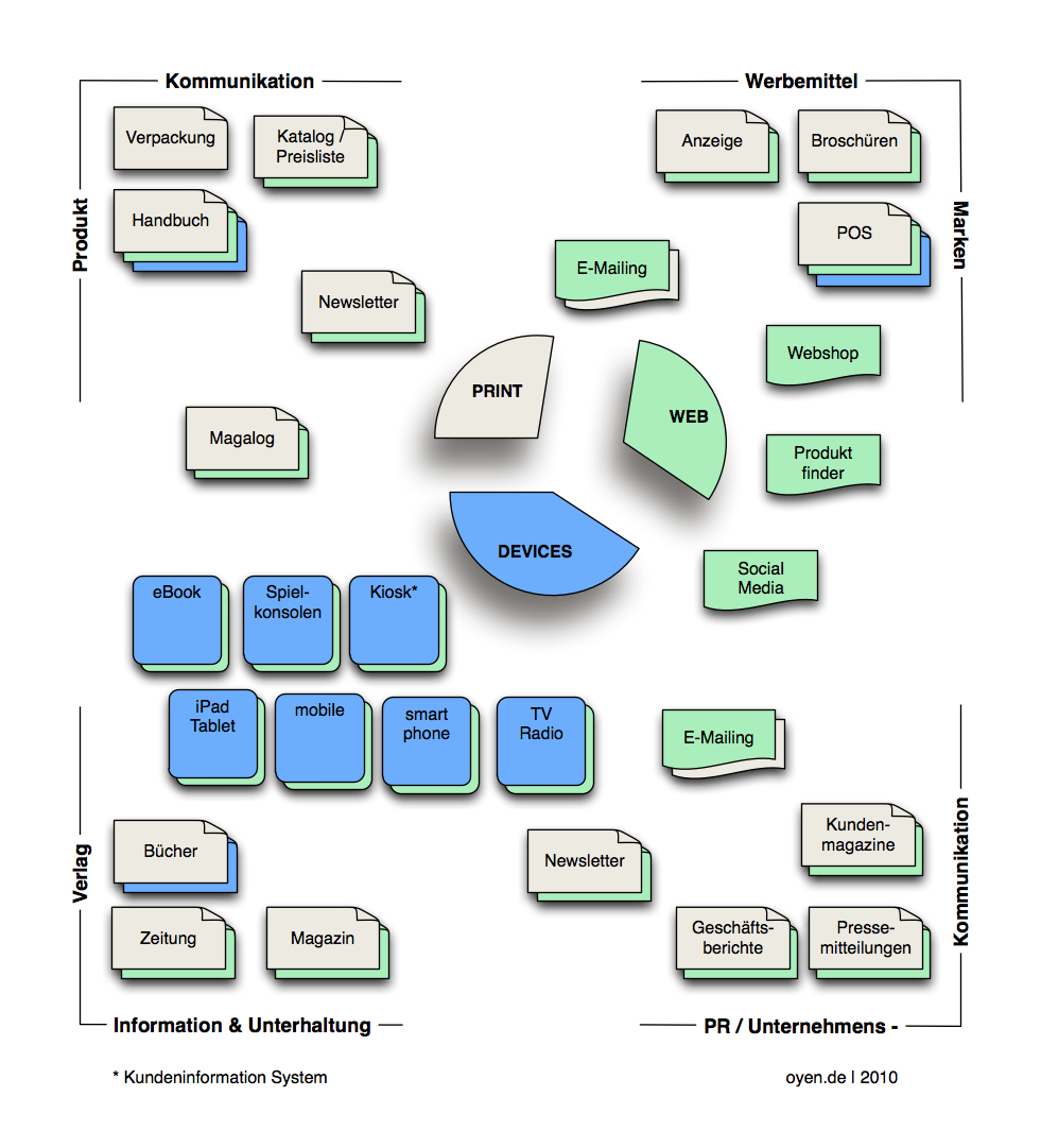 Overview four publishing areas (1) Product Communication (2) Promotional Products / Brands (3) PR / Corporate Communications (4) Publishers / Information / Entertainment and product adaptations in the channels Print / Web / Devices